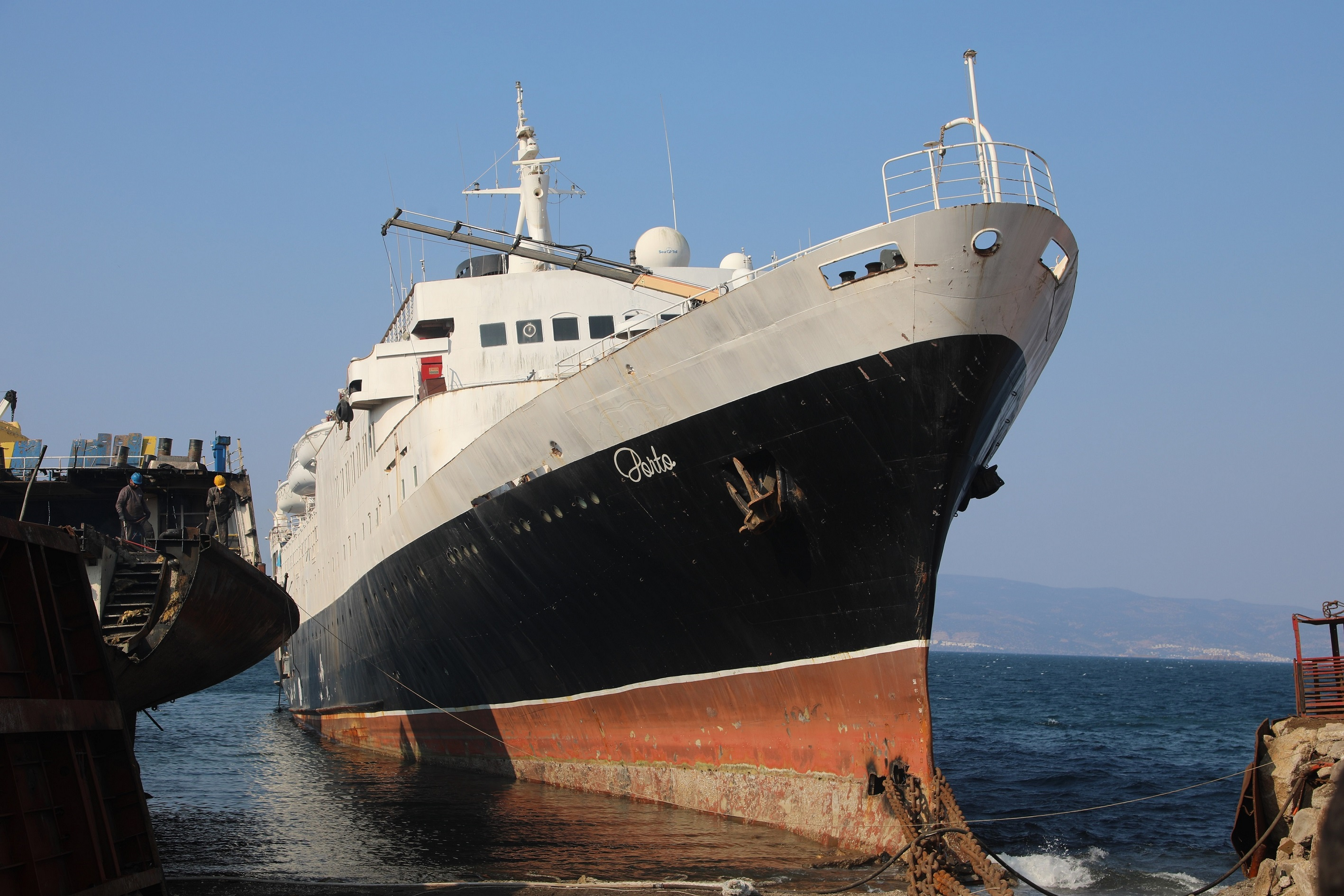 The cruise ship Porto (IMO 6419057, Portuscale Cruises) beached at the scrapyard (Aliağa, Turkey) on November 9, 2018.